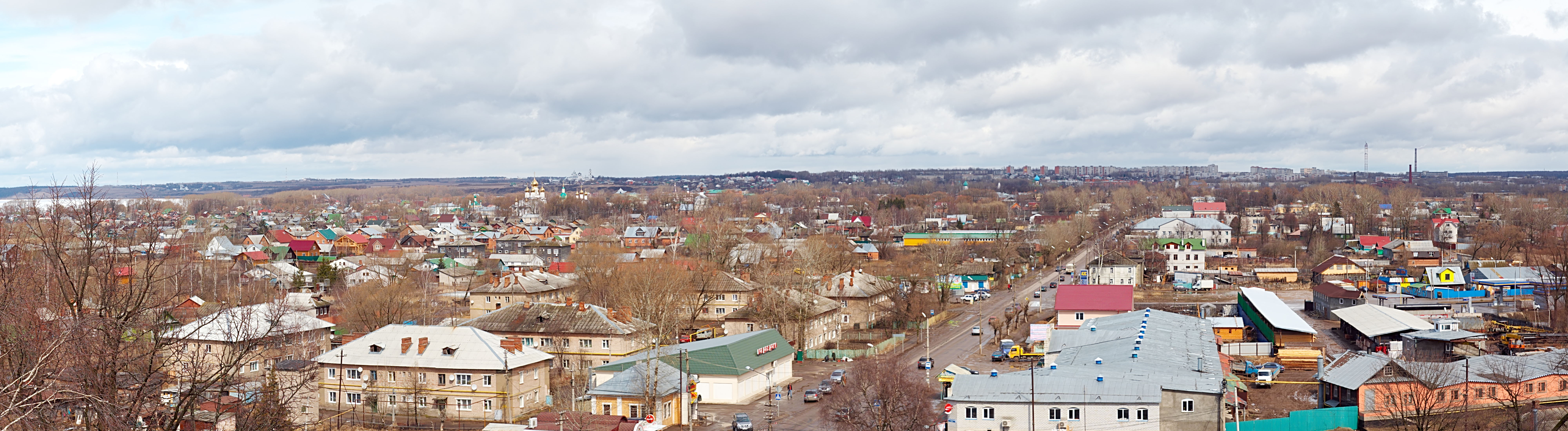 Panoramic view of Pereslavl-Zalessky